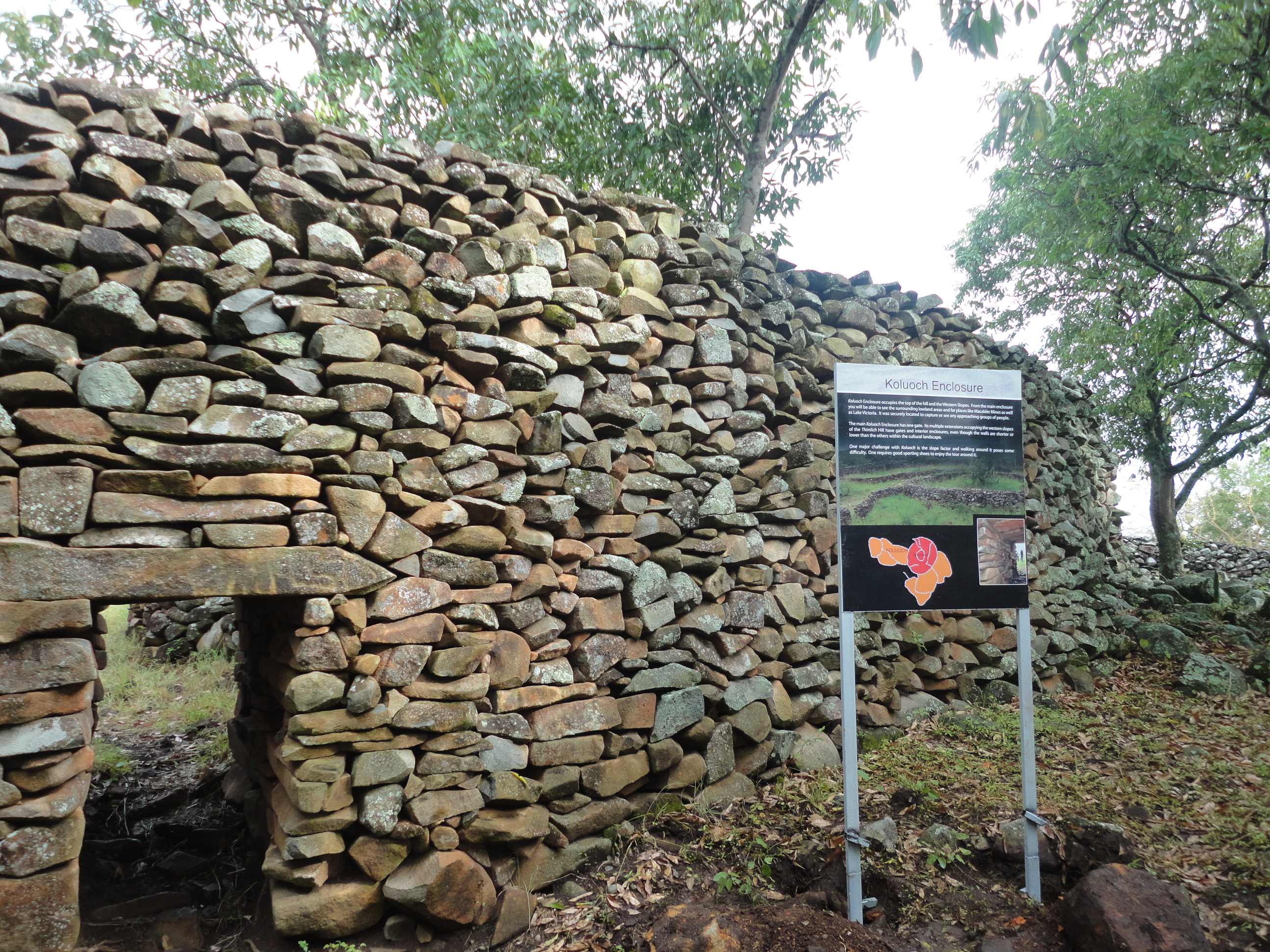 Thimlich Ohinga Cultural Lanscape is situated in Migori County in Kenya. It is a dry stone walling enclosure that reaches four metres high in some sections and two metres wide covering fifty two acres of land, with smaller inner enclosures that were probably cattle kraals. The walls are over 500 years old and the architectural technique used in its construction of using dry stones meticulously arranged without use of mortare is still a mystery. At Thimlich Ohinga three massive enclosures are interlinked. That is Kochieng, Kakuku and Koluoch enclosures. The monument was gazetted as a national monument in 1981.